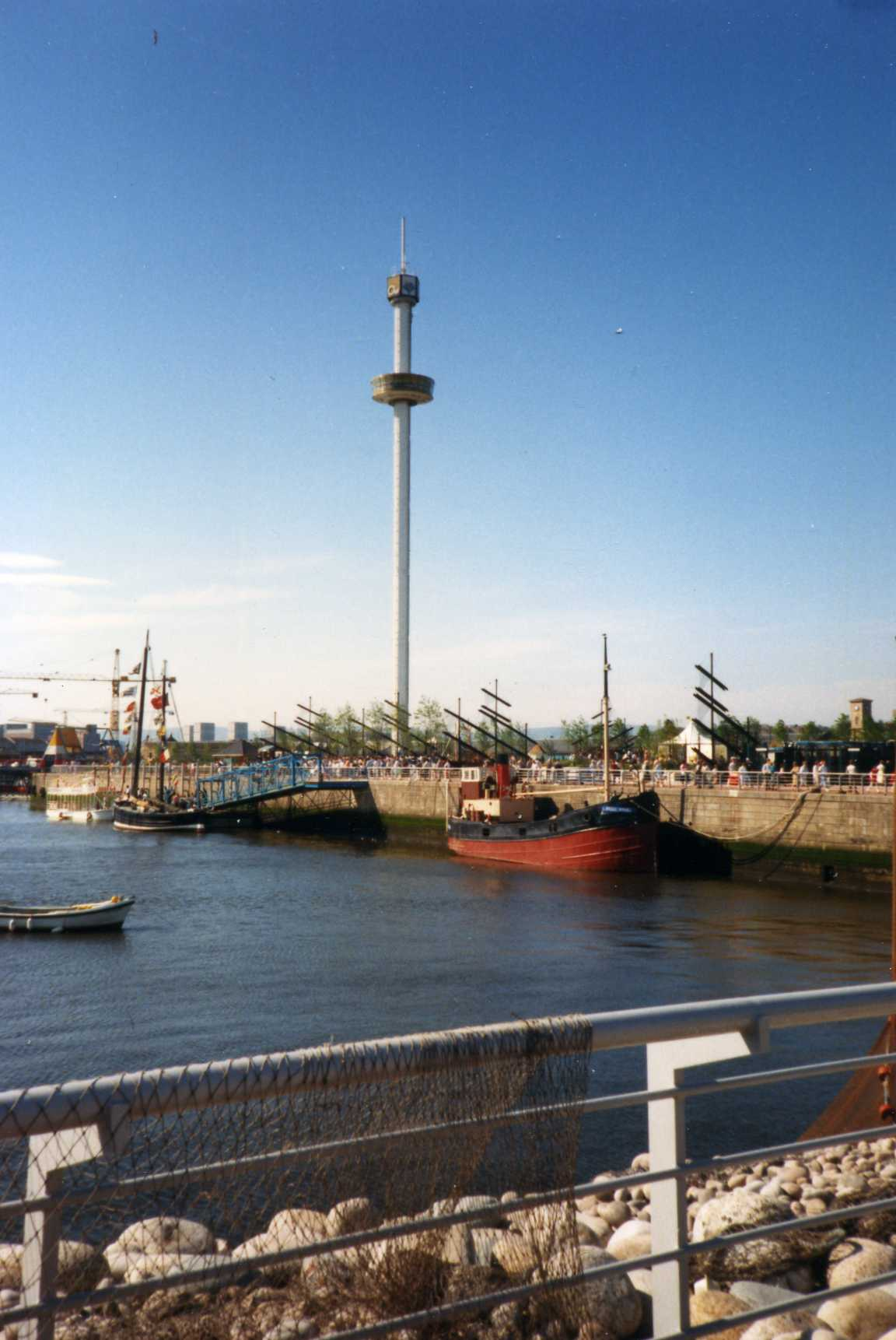 (Taken by Linda, scanned)